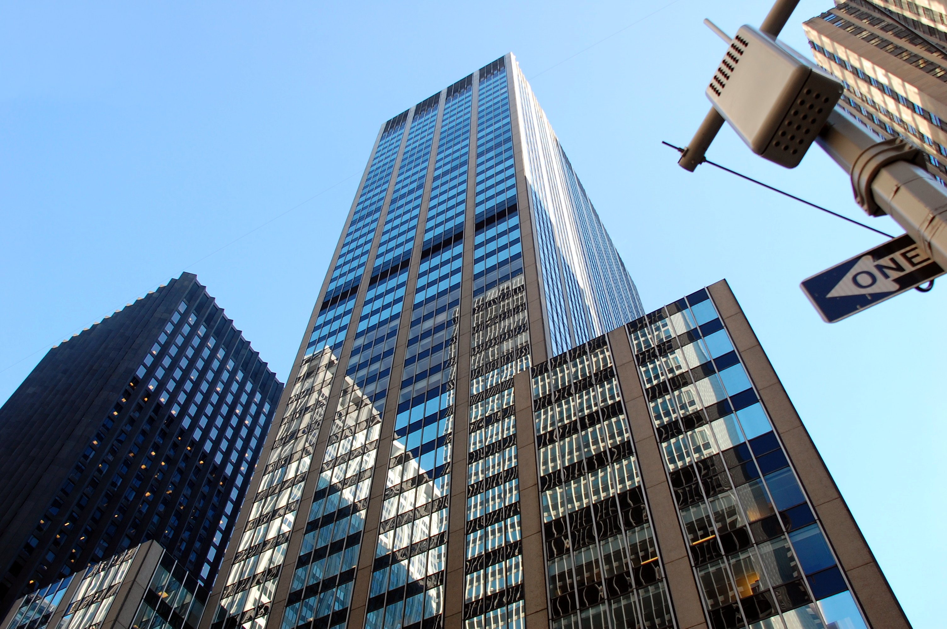 Skyscraper on Sixth Avenue in Manhattan, near Rockefeller Center. Currently houses offices for Cushman & Wakefield and AXA Equitable. May also be called AXA Financial Center (not to be confused with the nearby AXA Center) or the Sperry-Rand Building, according to Emporis. 44 stories, built in 1963.